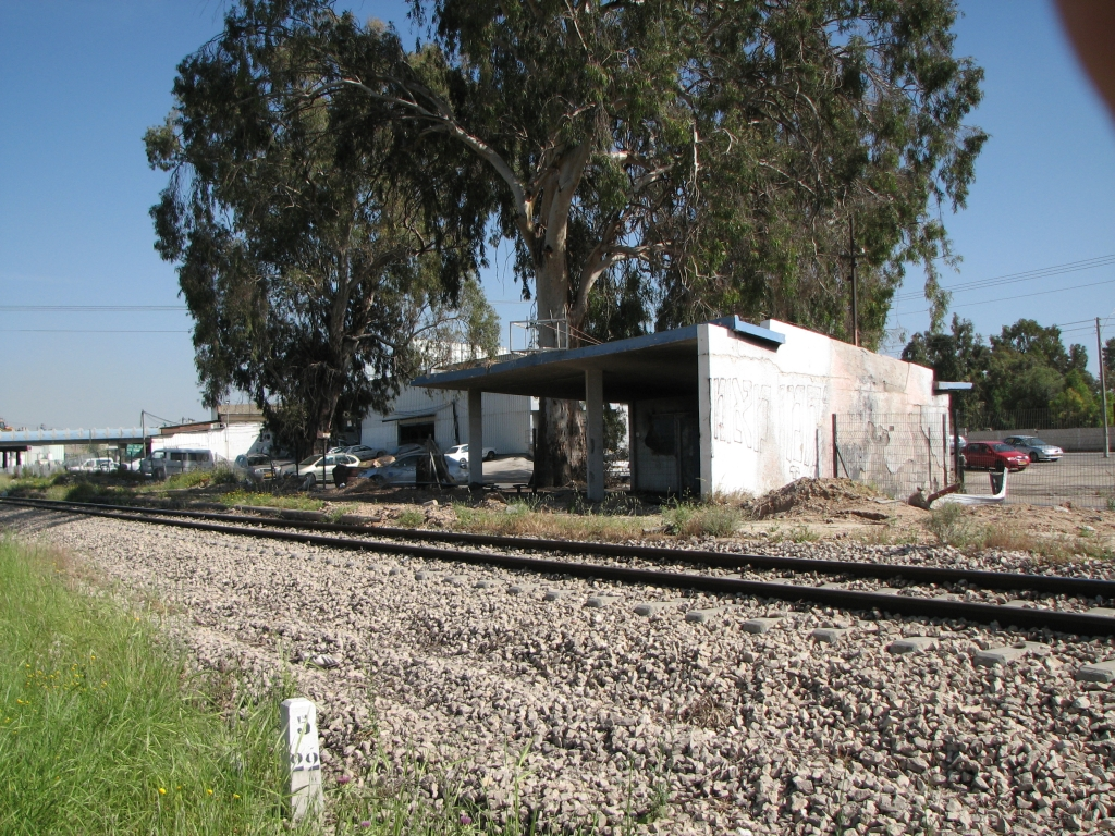 Old Ramla Railway Station